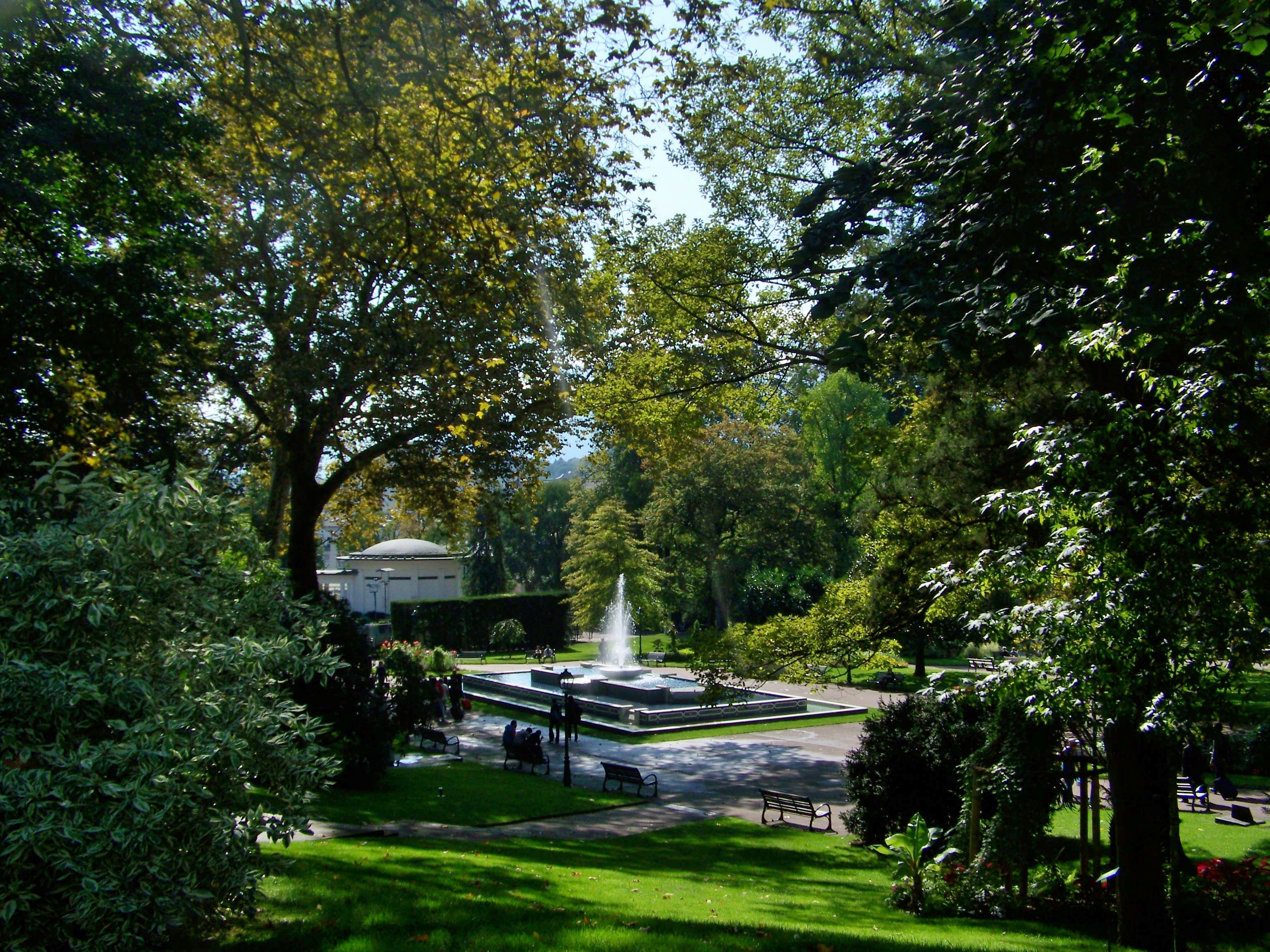 Sight of parc thermal or parc floral of Aix-les-Bains in Savoie, France.